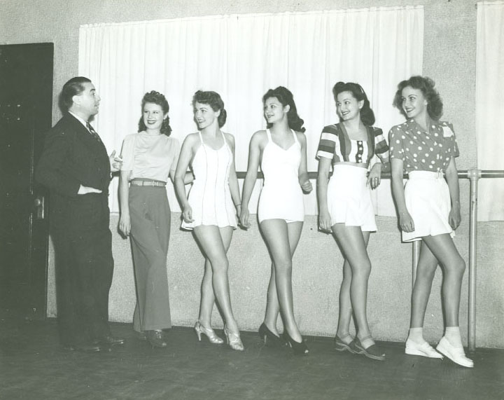 Photograph of choreographer LeRoy Prinz with Paramount dancers.